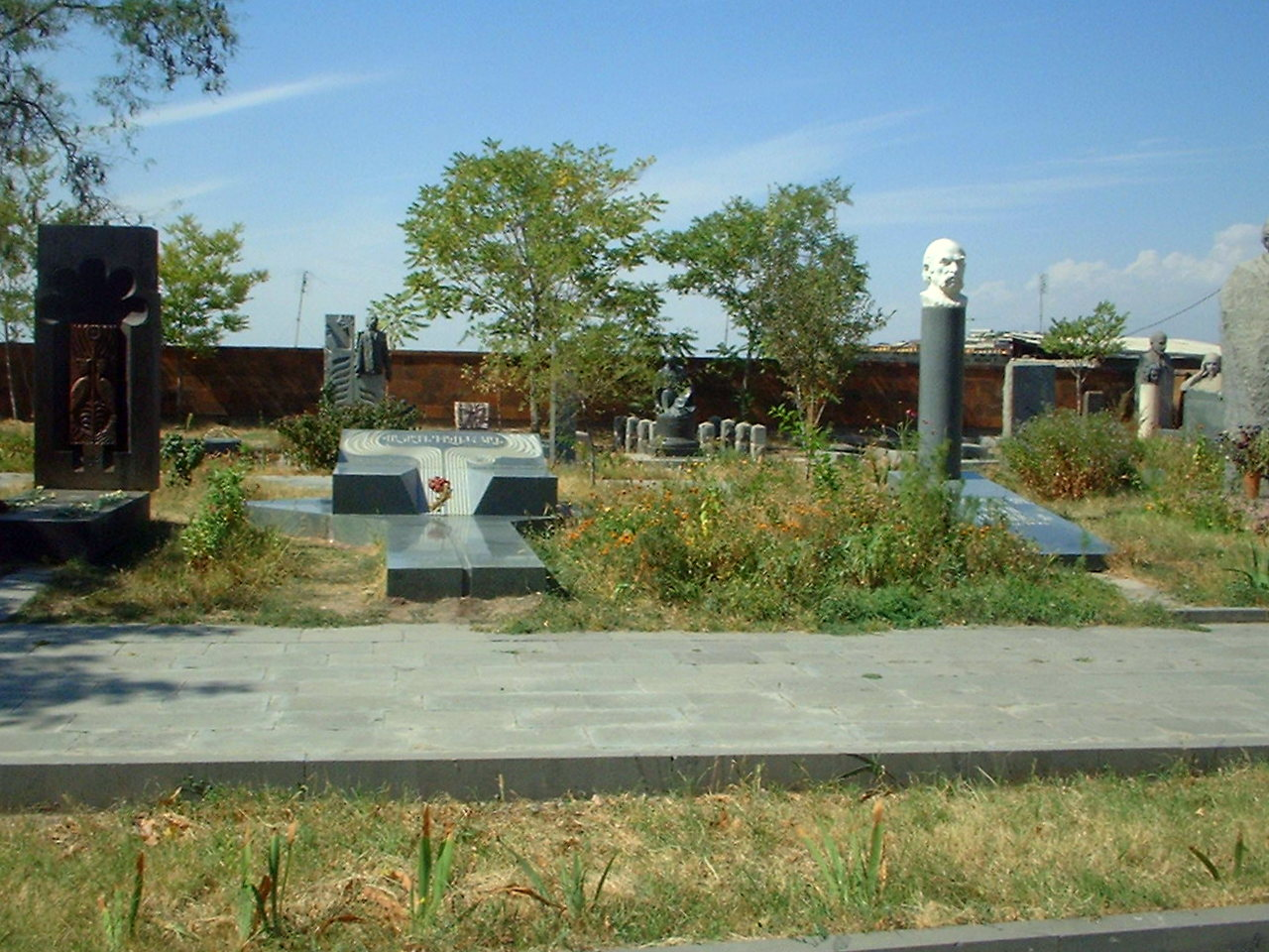 Komitas Pantheon, Yerevan.